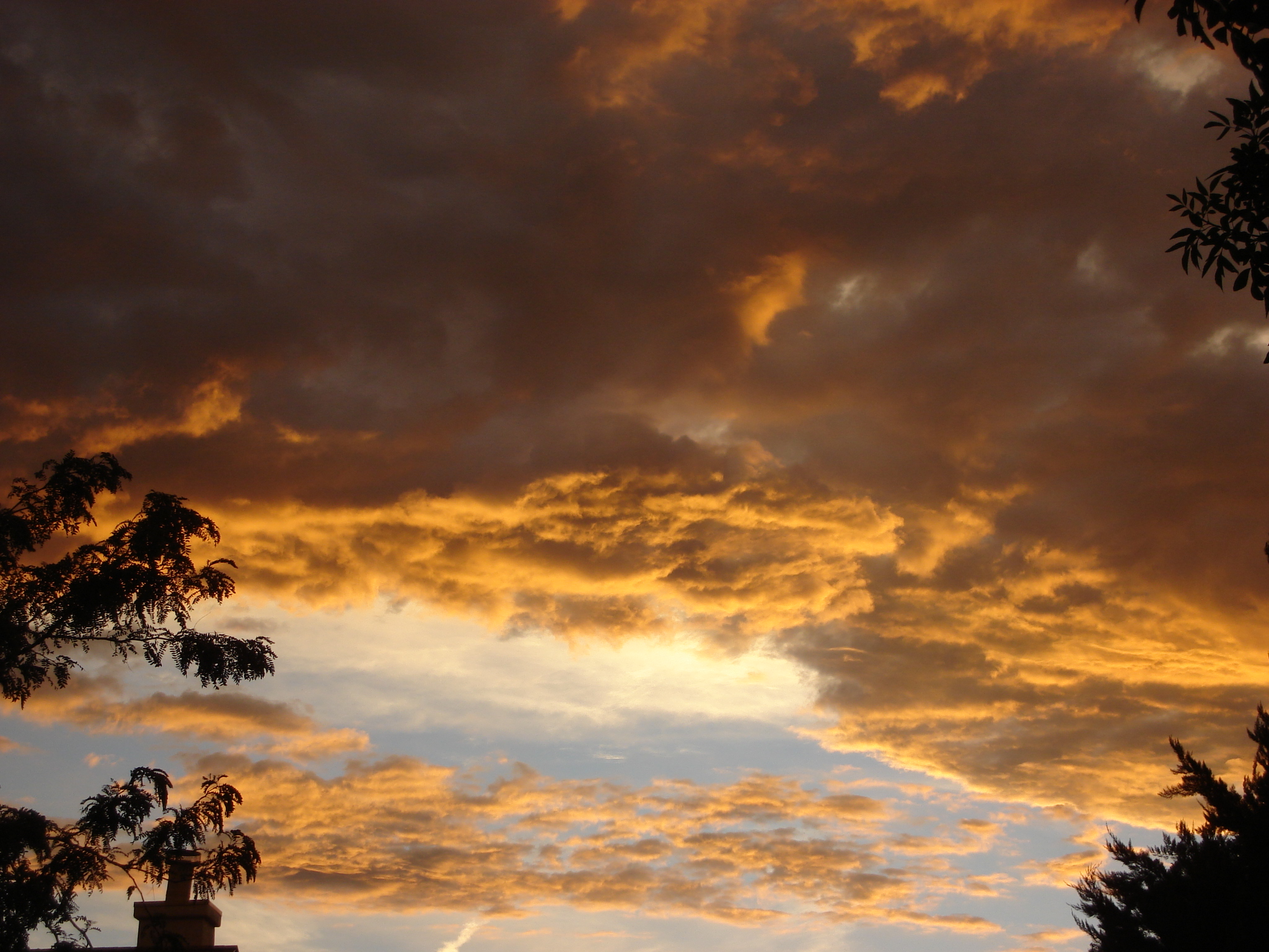 A Prescott Valley Sunset Author: Casey A.